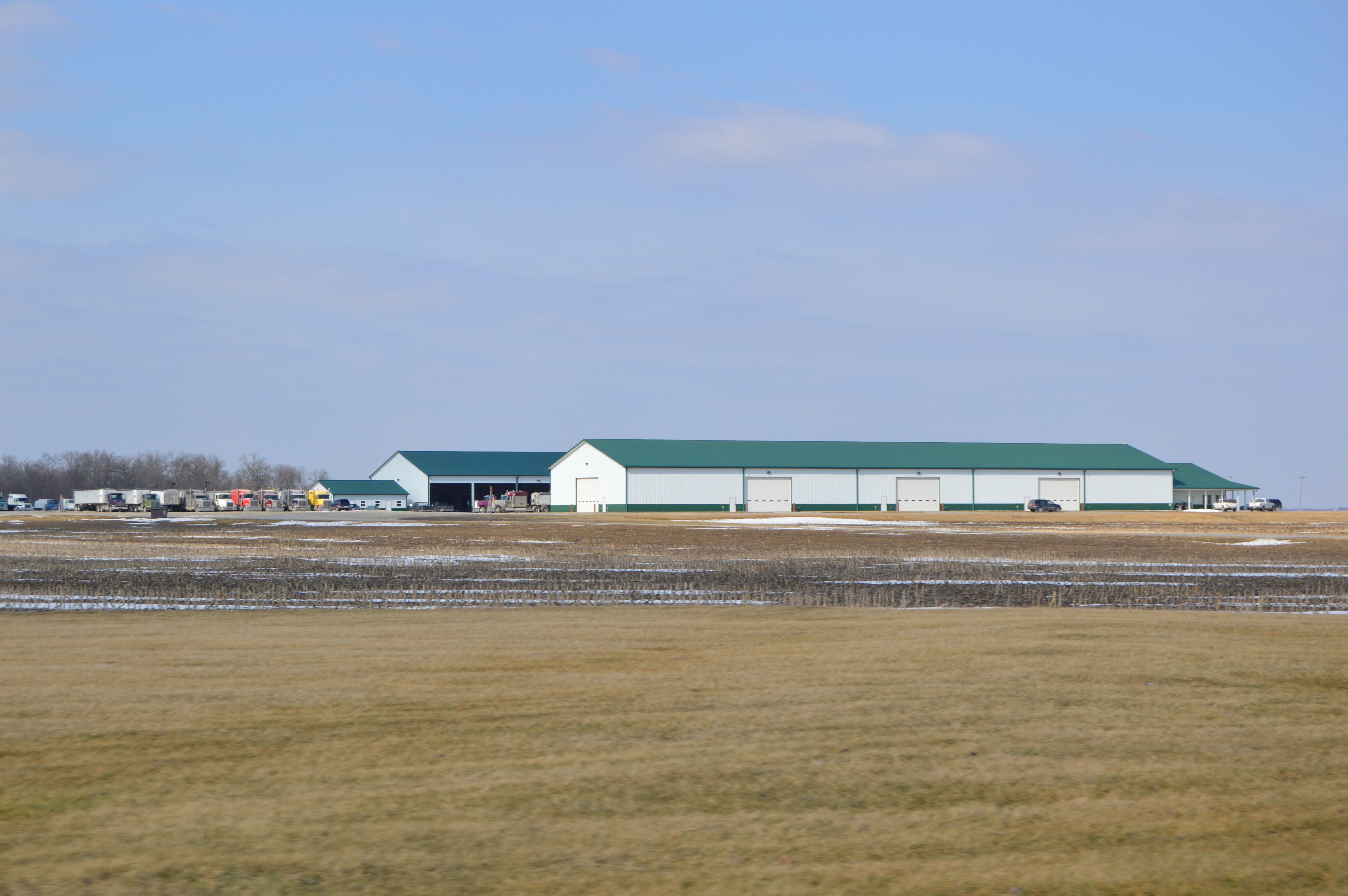 Distant view from the southeast of large barns at Pitstick Farms, located at 15200 Prairie Pike in southwestern Range Township, Madison County, Ohio, United States.